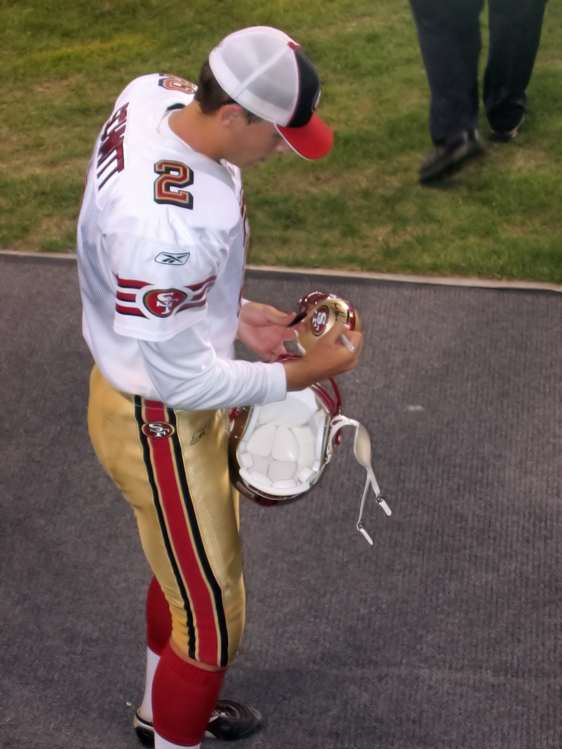 Ricky Schmitt signing a helmet at the 2008 Bears-49ers preseason game.